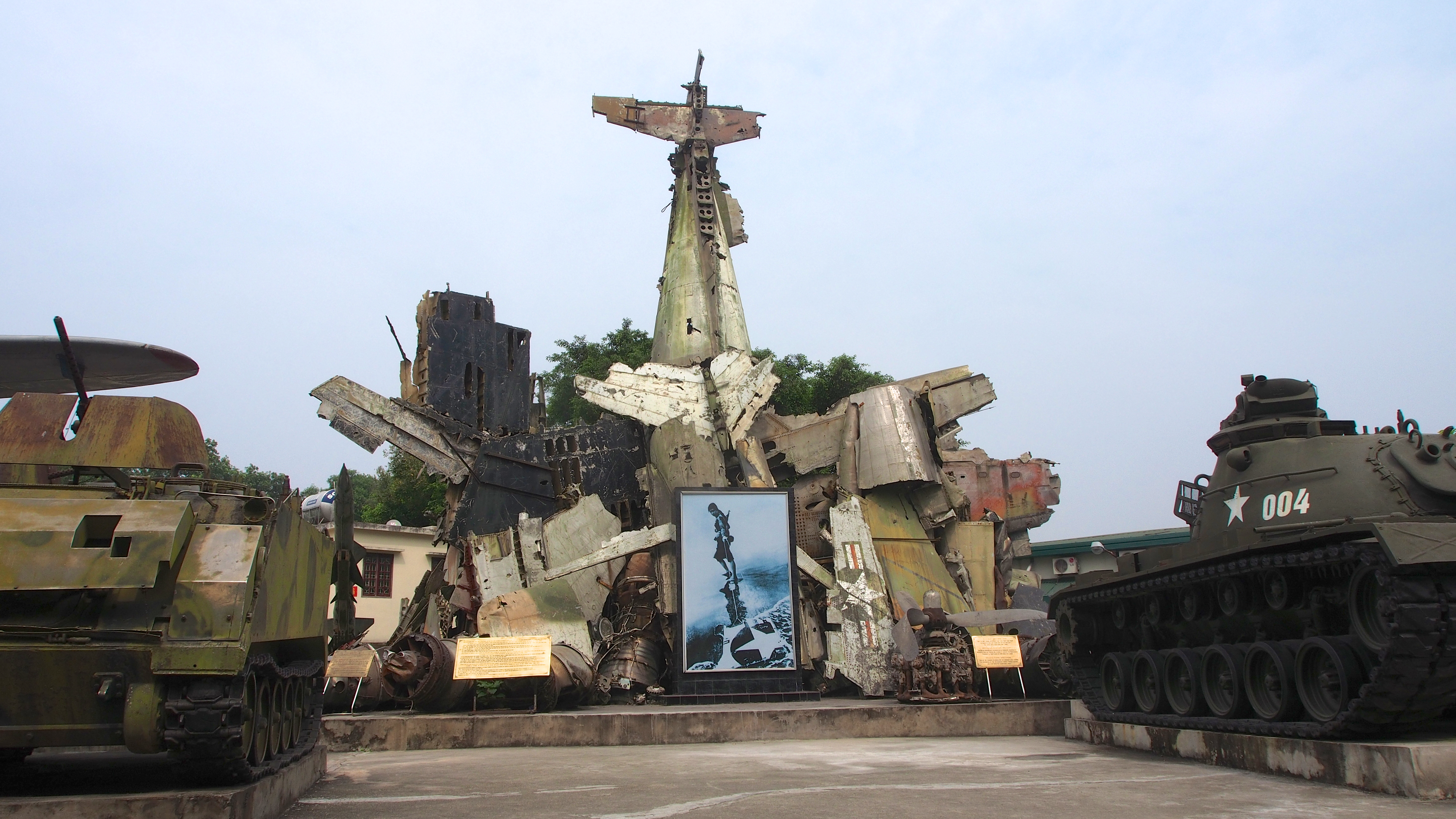 Vietnam Military History Museum